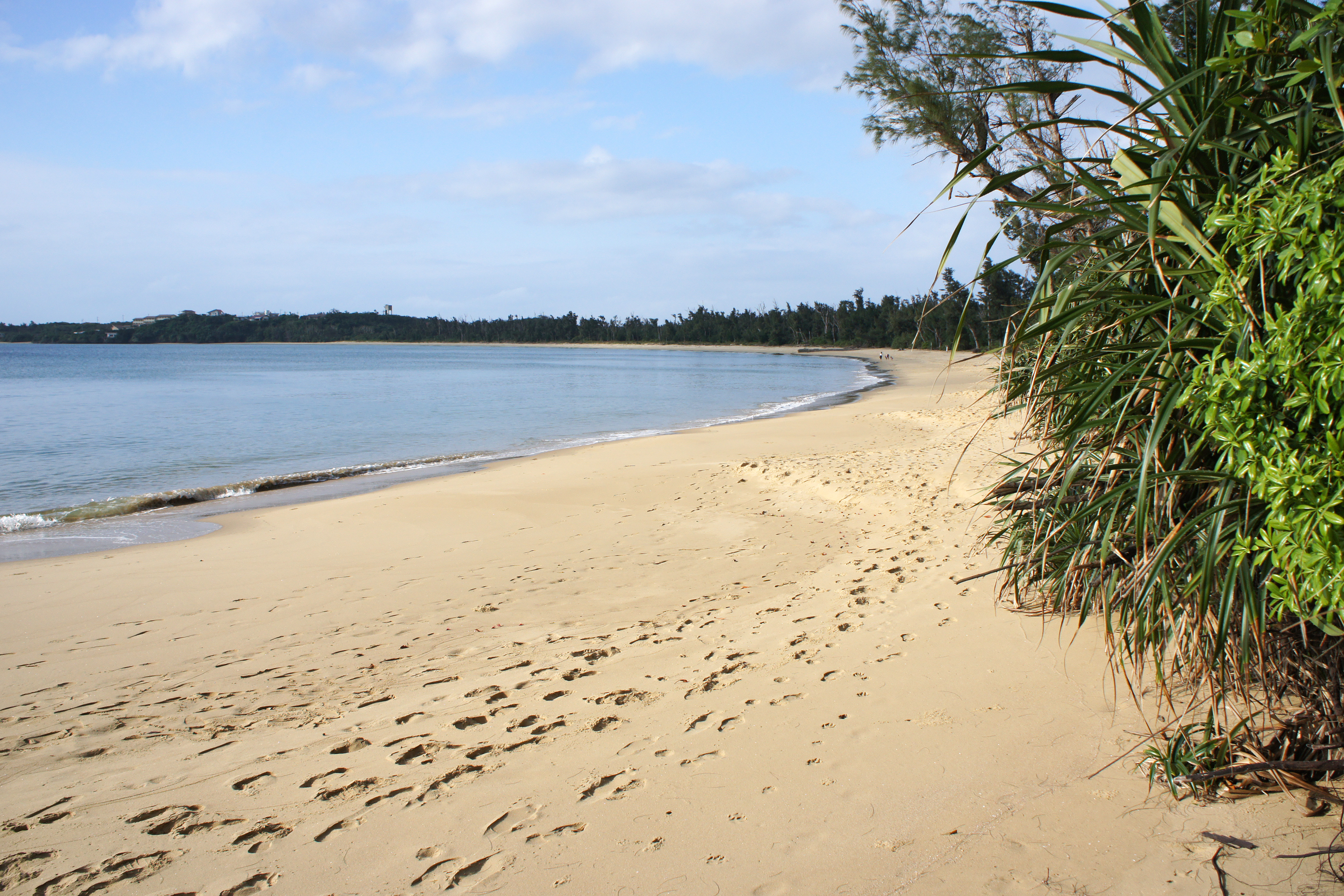 Tudumari-no-hama ( Tsukigahama Beach ) in Iriomote Island, Taketomi Town, Okinawa Prefecture, Japan.